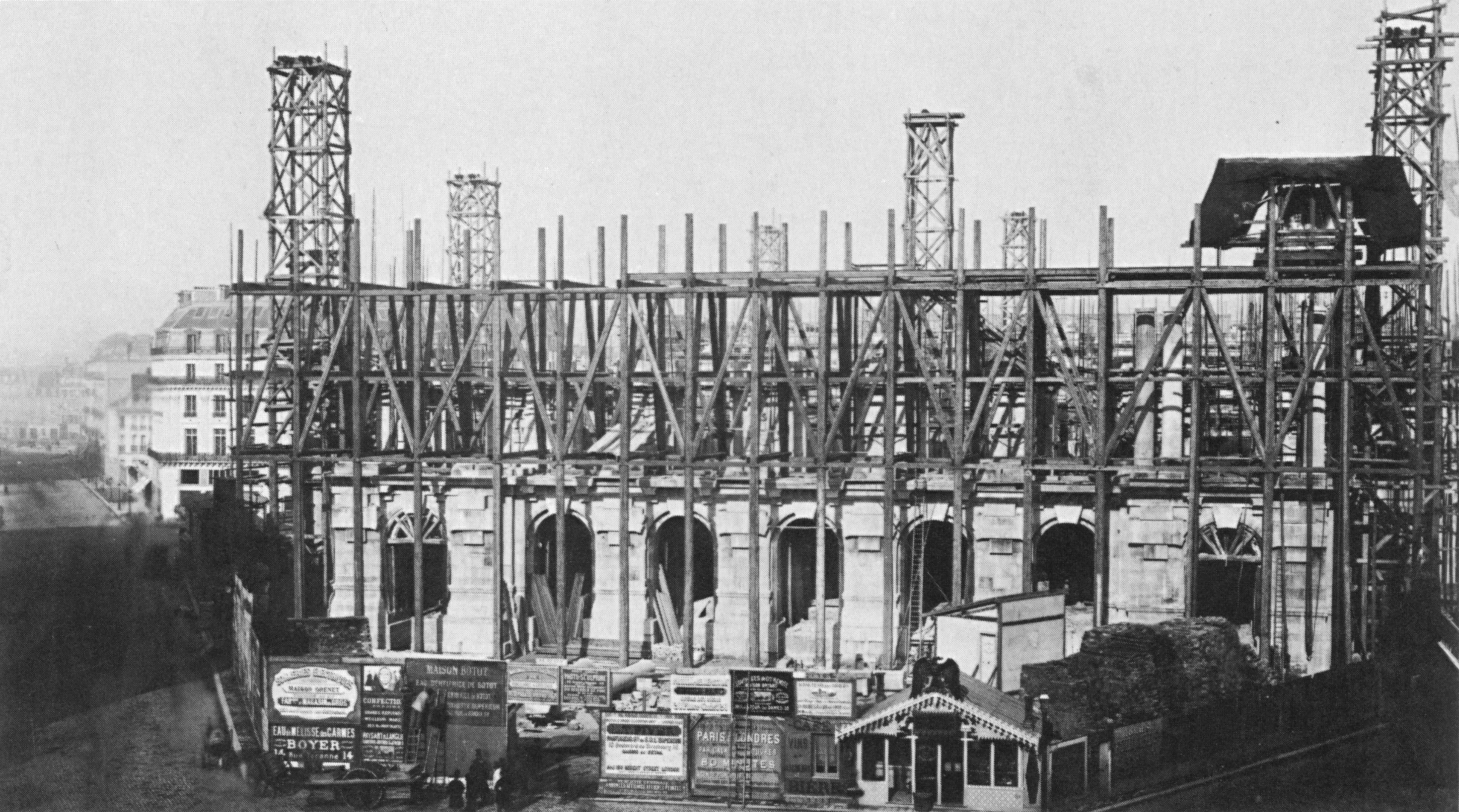 Construction of the facade of the Palais Garnier as photographed on 1 October 1864